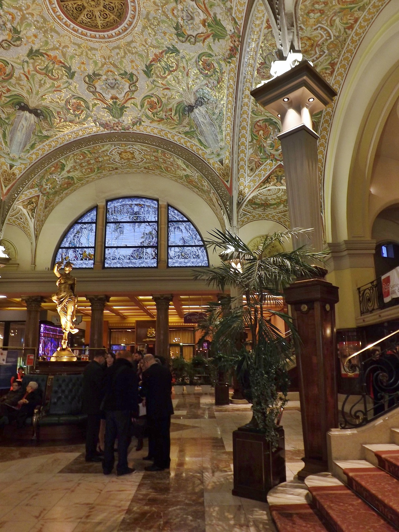 Sight of the Palais de Savoie (current Casino Grand Cercle) theather entrance hall and its mosaic vaulted ceiling, in Aix-les-Bains, Savoie, France.